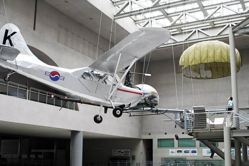 Airplane.@War Memorial of Korea